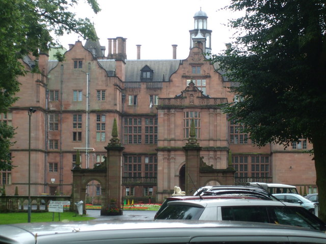 Hewell Grange Hewell Grange is large country house between Redditch and Bromsgrove, it was used as Borstal from 1946 to 1991 when it became HMP Hewell Grange (HMP Hewell from June 2008 when it merged with the neighbouring HMP Brockhill and HMP Blakenhurst).